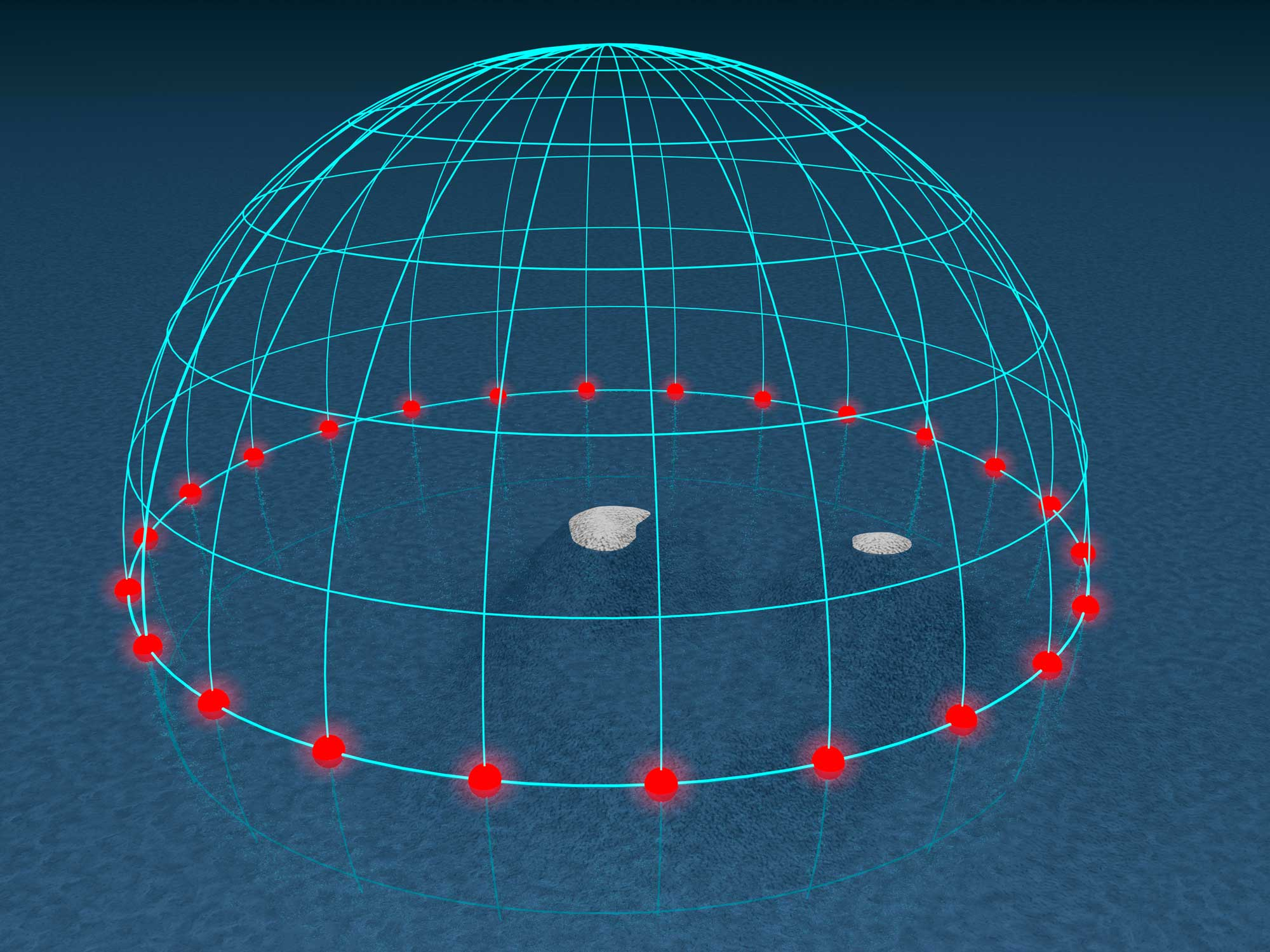 The day arc of the Sun, every hour, during the equinox as seen on the celestial dome, from the pole.